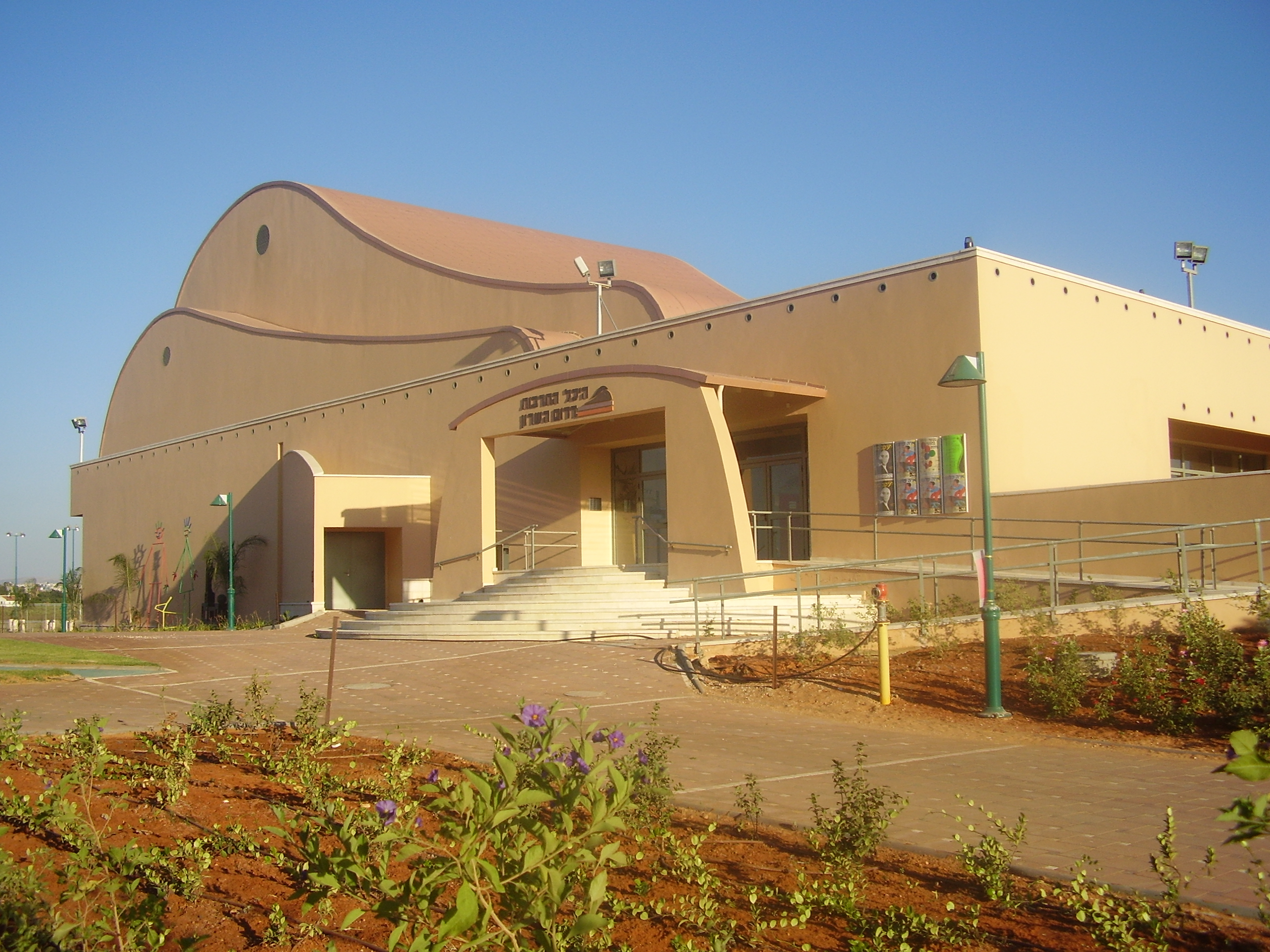 The auditorium of the Drom HaSharon (South Sharon) regional council, next to the council office building, near moshav Neve Yaraq, Israel